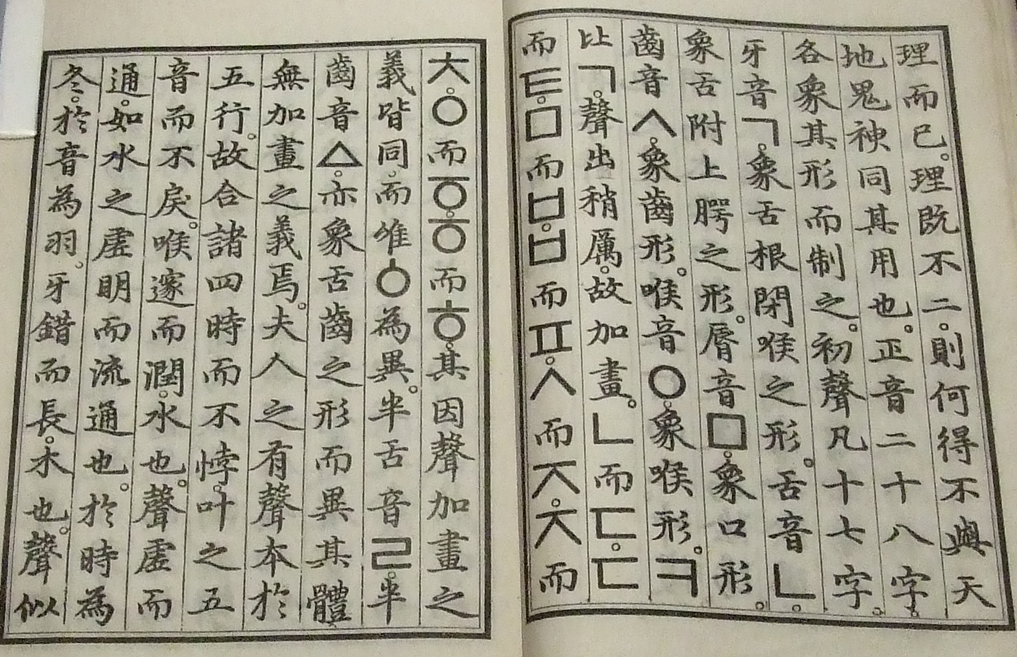 Replica of Hunmin Jeongeum Haerye, the book in which the creation of hangul is explained. Picture taken at the National Museum Korea in Seoul.